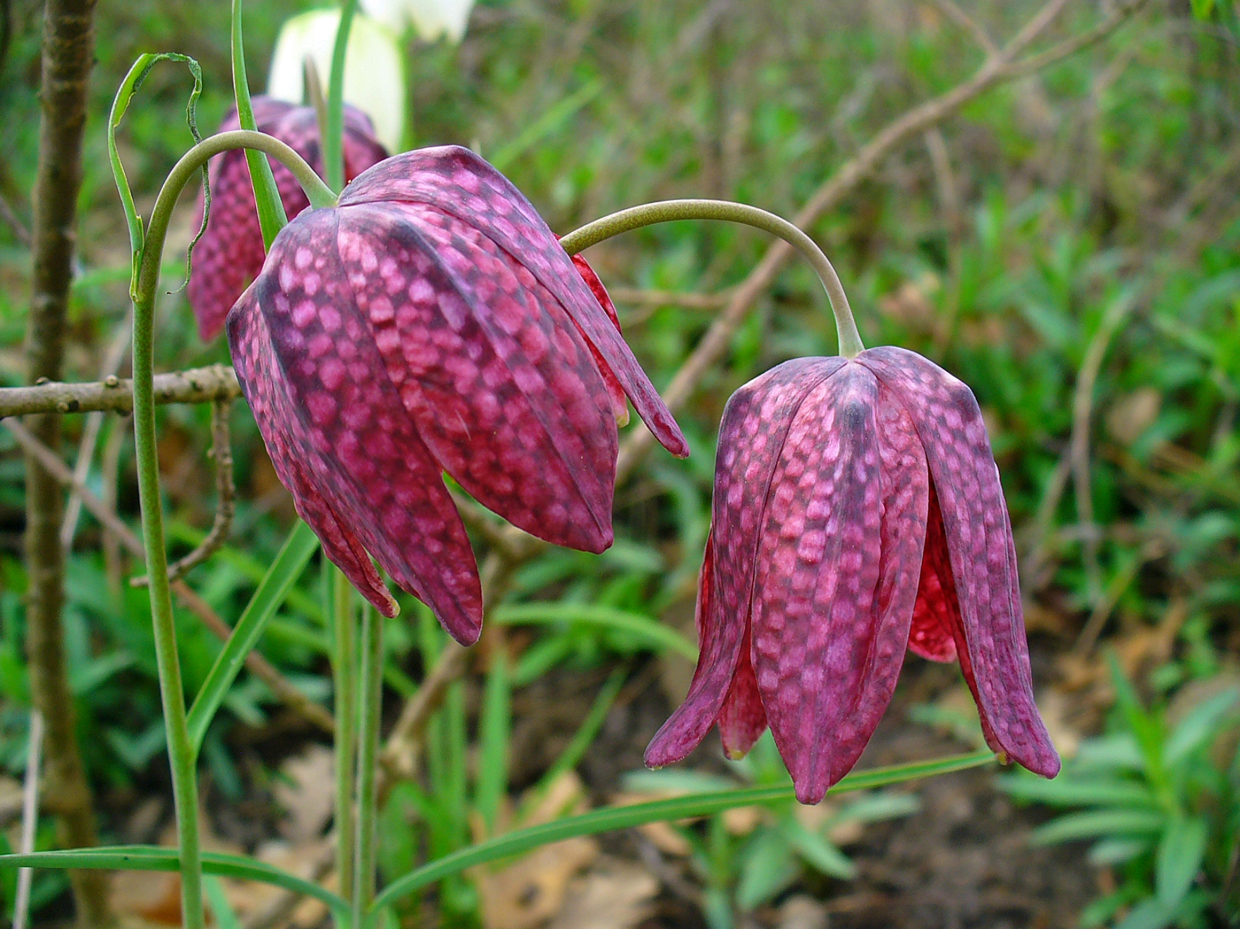 Fritillaria meleagris, Liliaceae, Snake's Head Fritillary, Checkered Daffodil, Chess Flower, Frog-cup, Guinea-hen Flower, Leper Lily, Snake's Head, flowers; Botanical Garden KIT, Karlsruhe, Germany.